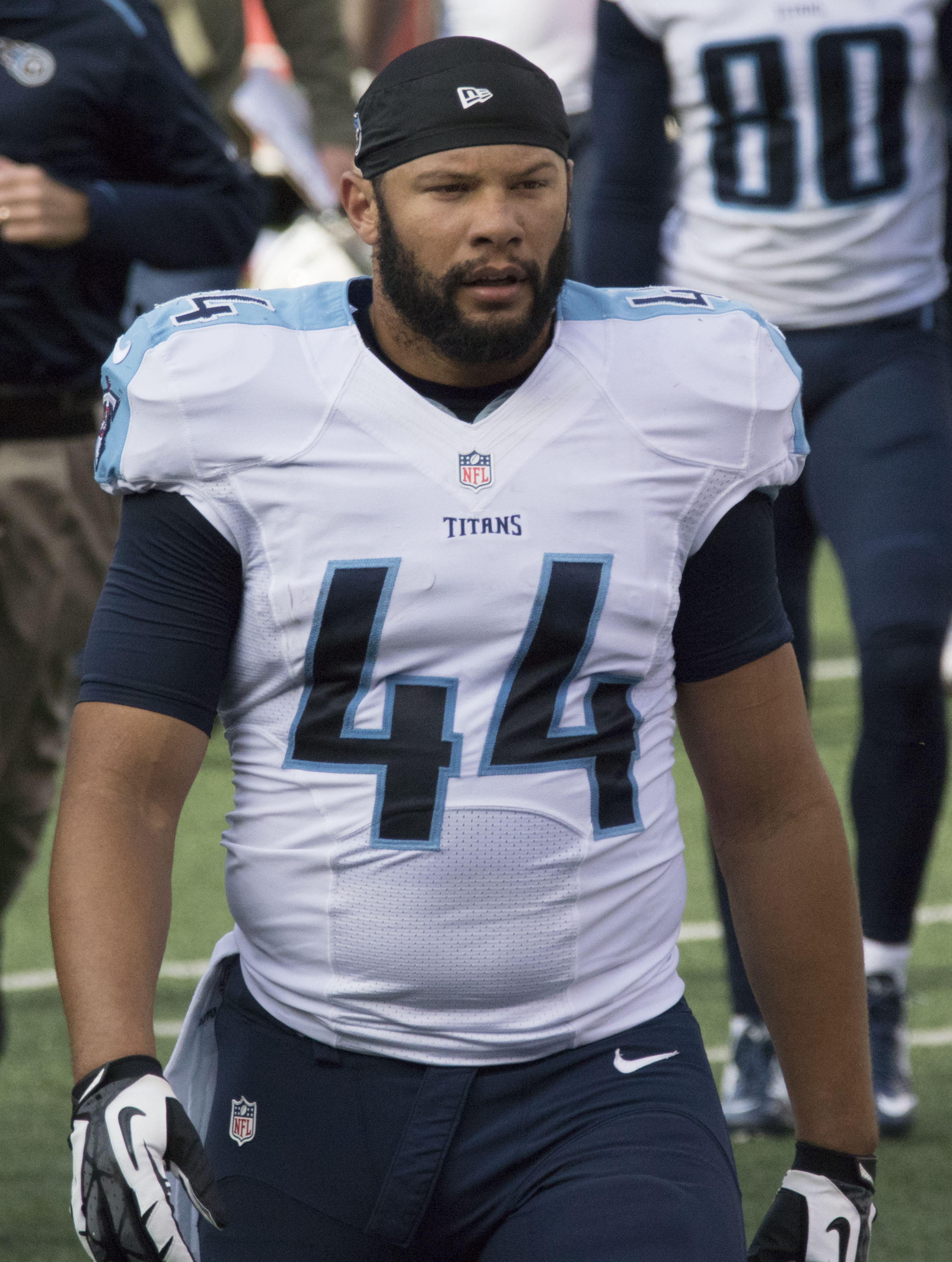 Tennessee Titans fullback, Jackie Battle, in a game against the Baltimore Ravens on November 9, 2014.